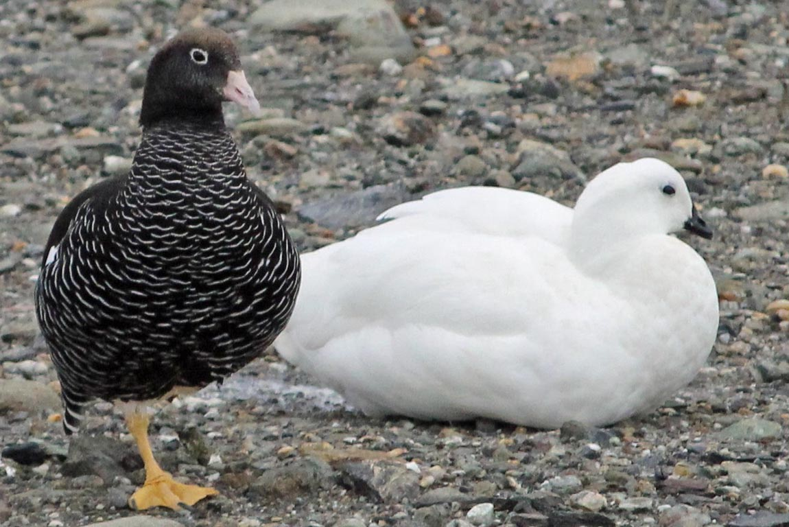 Kelp Goose (Chloephaga hybrida) - Ushuaia Harbor, Argentina. Female is on left, male on right.